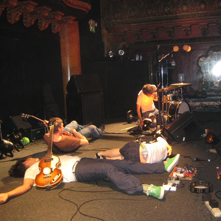 Deerhoof on stage